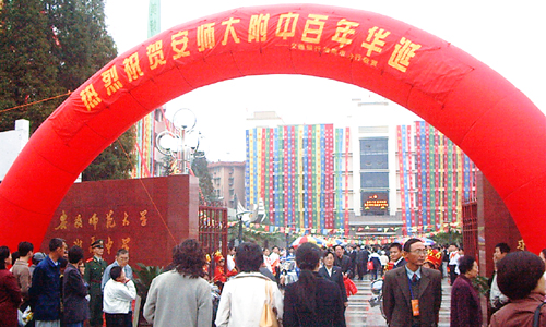 The East Gate on the 100th Anniversary of The High School Affiliated to Anhui Normal University